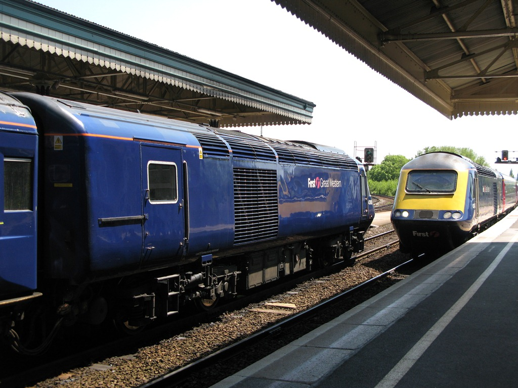 43142 (right) arrives at Exeter St Davids station with a train for London, passing 43183 which is heading west.